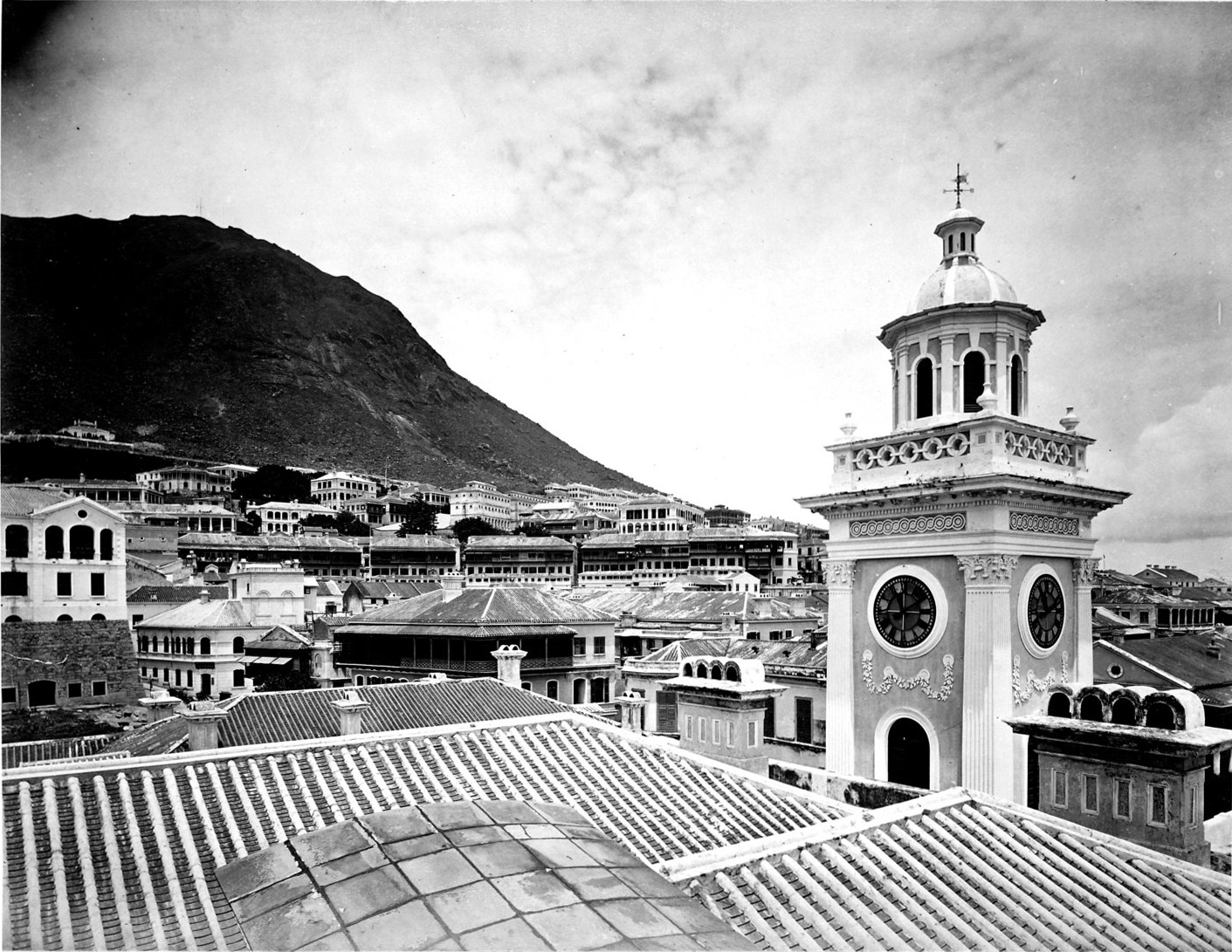 photo from Album of Hongkong Canton Macao Amoy Foochow